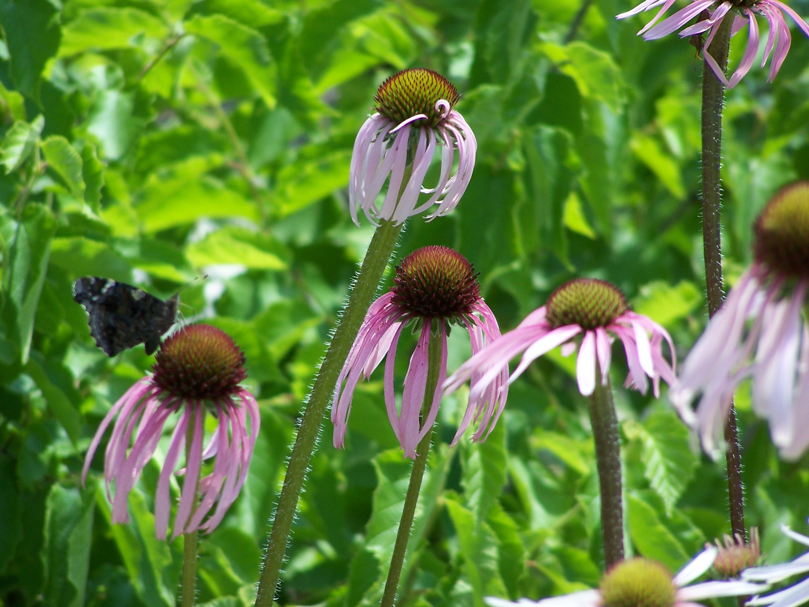 Echinacea pallida Pale Purple Coneflower with butterfly at Minnesota Landscape Arboretum